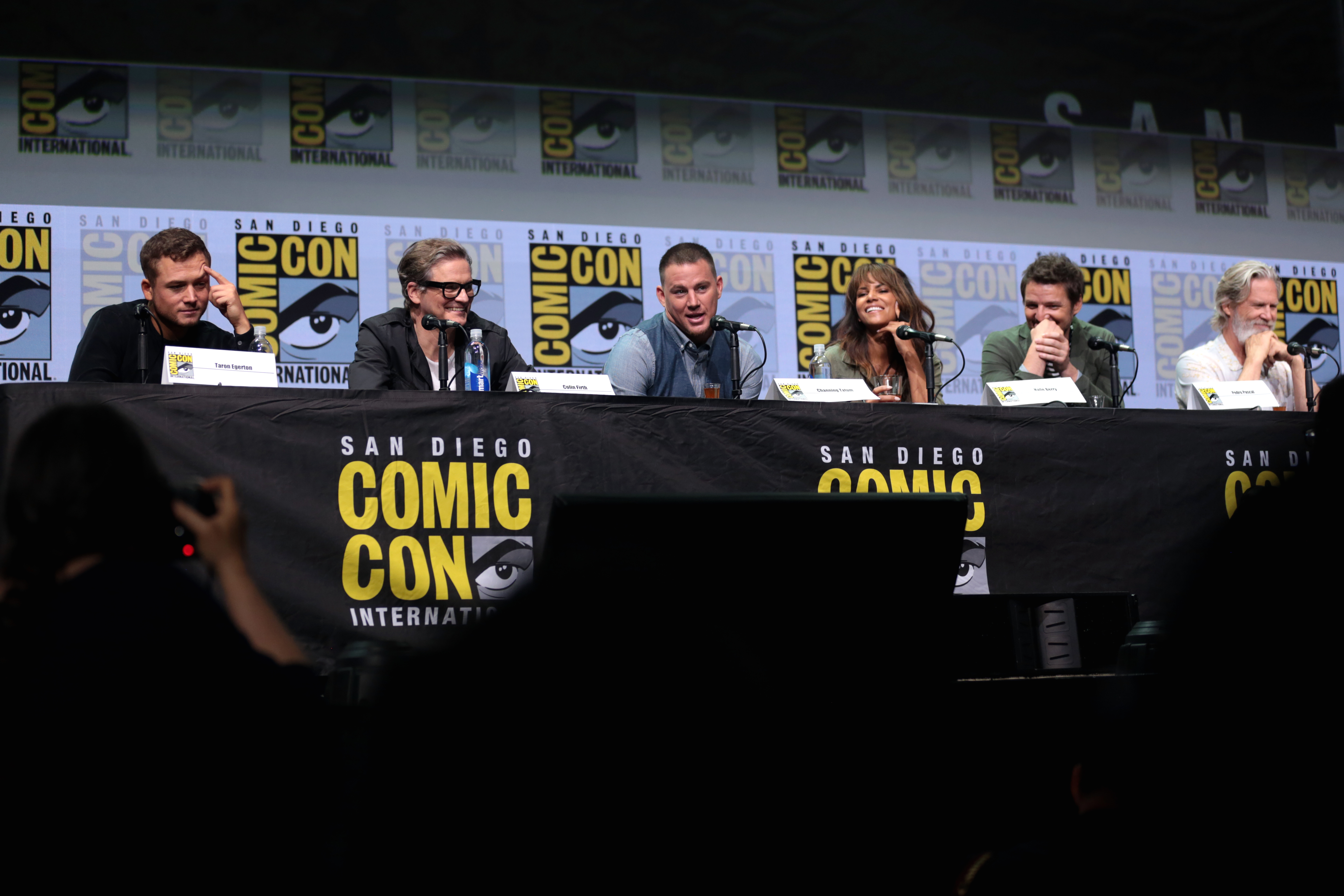 Taron Egerton, Colin Firth, Channing Tatum, Halle Berry, Pedro Pascal and Jeff Bridges speaking at the 2017 San Diego Comic Con International, for "Kingsman: The Golden Circle", at the San Diego Convention Center in San Diego, California.